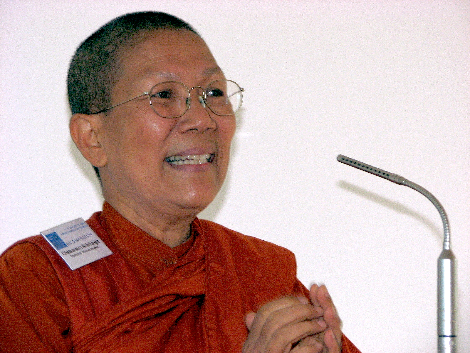 Ven. Bhikkhuni Dhammananda at international conference in St. Ottilien, Germany